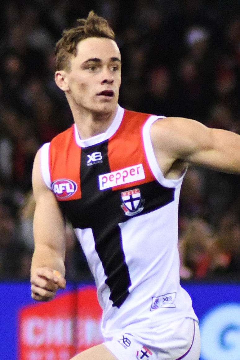 Ben Paton of St Kilda during the 2018 AFL round 21 match between Essendon and St Kilda at Etihad Stadium on Friday, 10 August 2018 in Melbourne, Victoria.